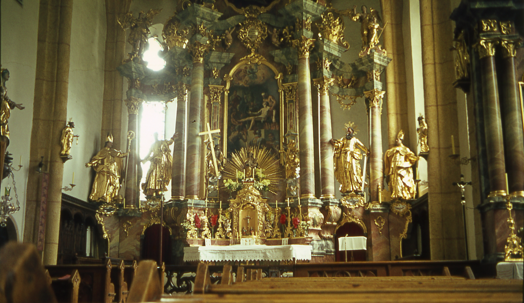 Bramberg church altar in 1965